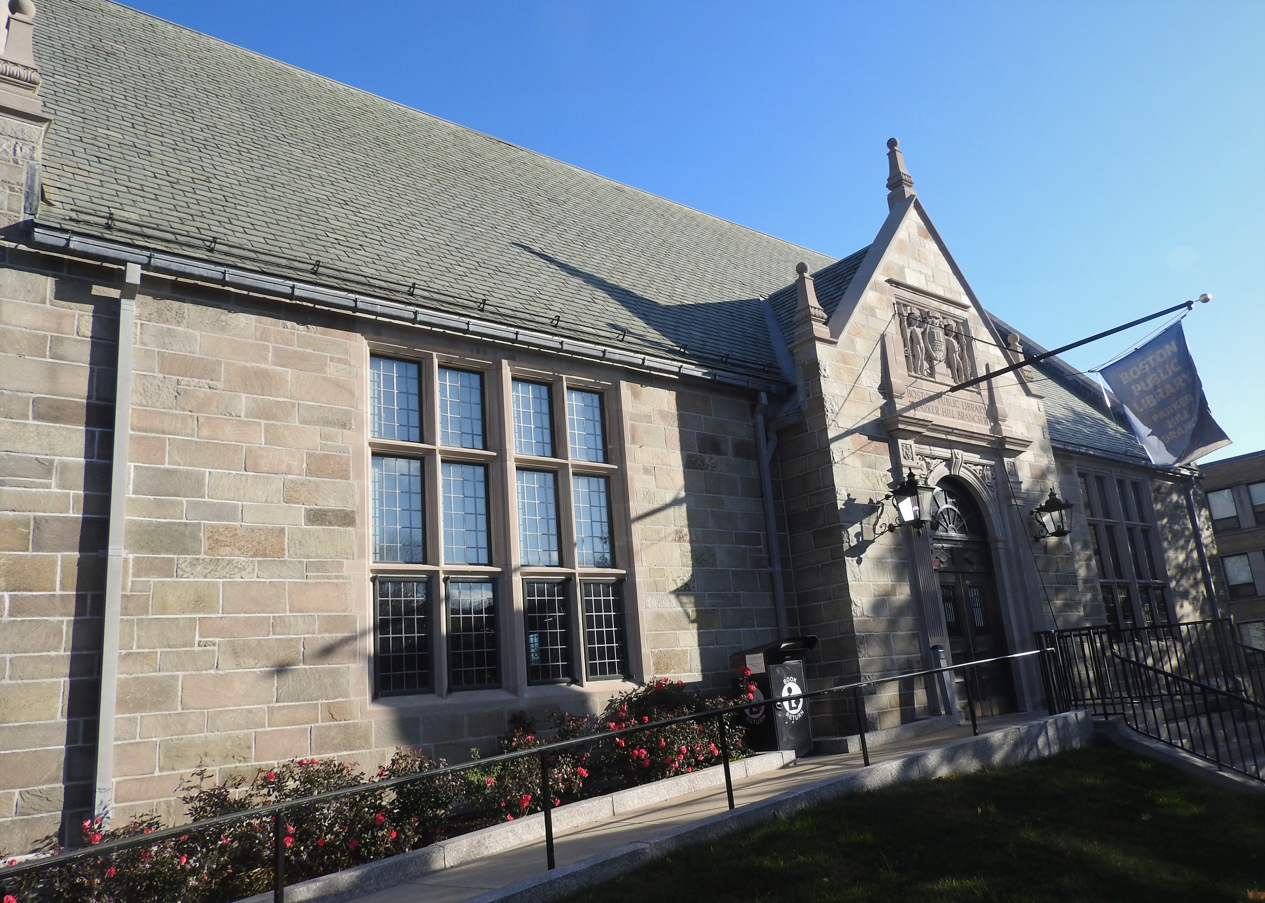 Looking east from Tremont Street at Parker Hill Public Library. EXIF location is a mile north due to camera GPS remembering where it was last time.